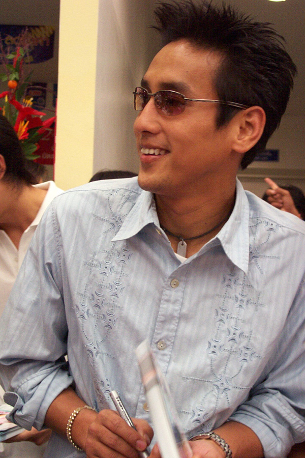 Saksit Tangton with Bangrak Soi 9 film crew at Tesco Lotus on 24 May 2003